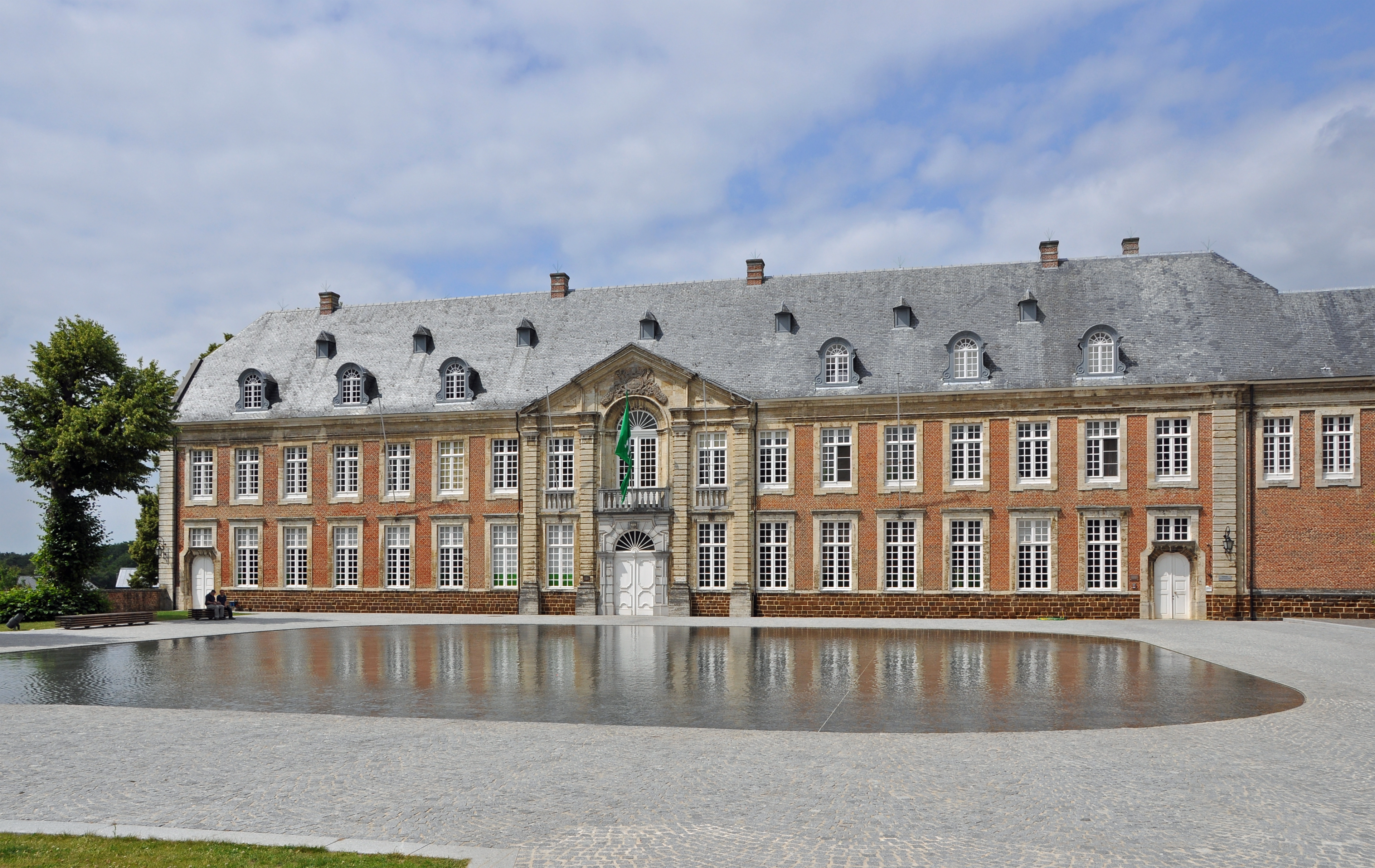 Averbode (Belgium): the abbey